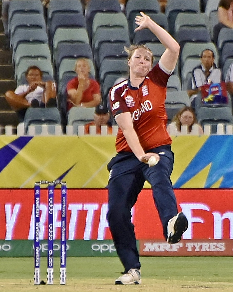 Anya Shrubsole bowling for England against South Africa during their 2020 ICC Women's T20 World Cup match at the WACA Ground in Perth, Australia